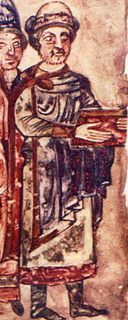 Sviatoslav Yaroslavich in Sviatoslav's Miscellanies